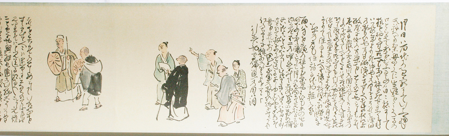 OKU no HOSOMICHI handscroll ACE1779 ink and color on paper by BUSON, 28cm height, ITSUOH Museum, Osaka, Japan